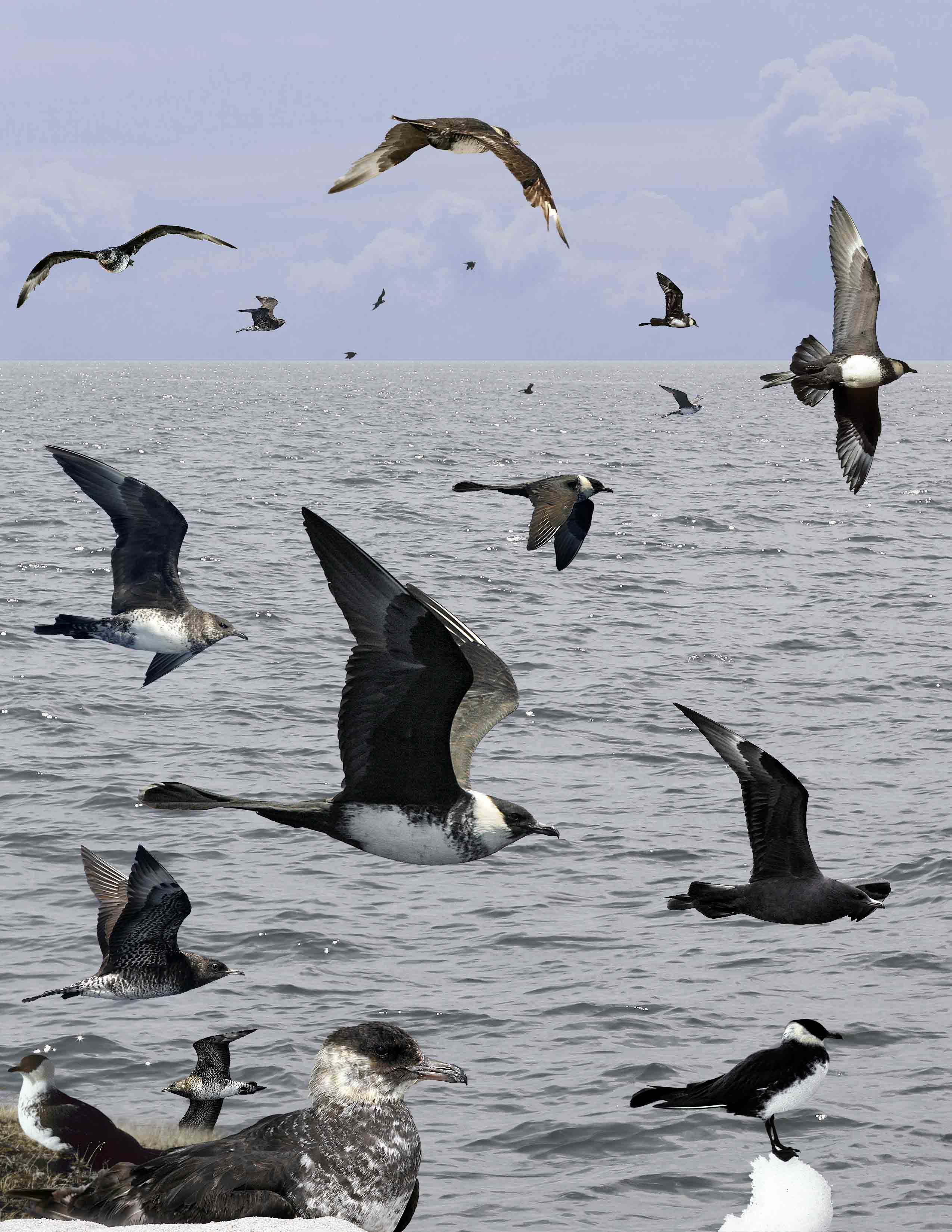 Pomarine Skua from the Crossley ID Guide Britain and Ireland